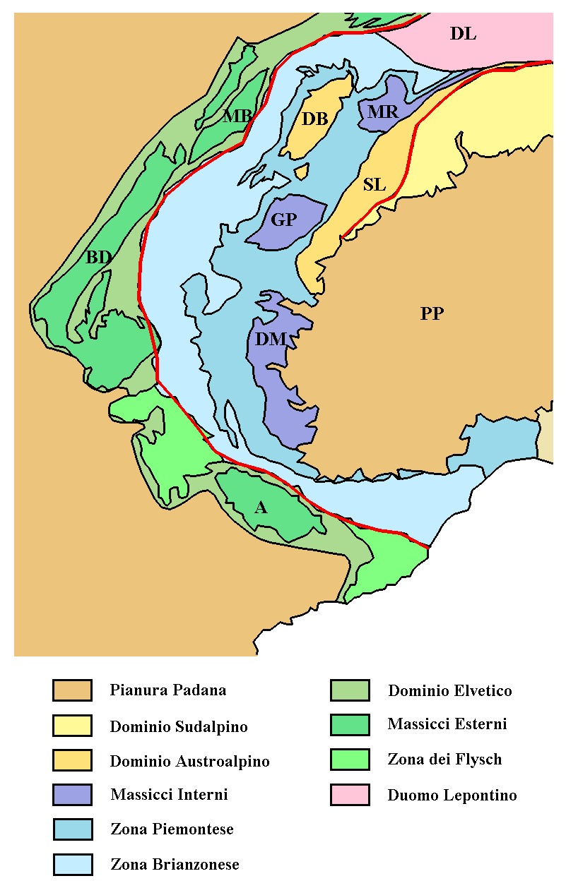 schematic map of penninic nappe